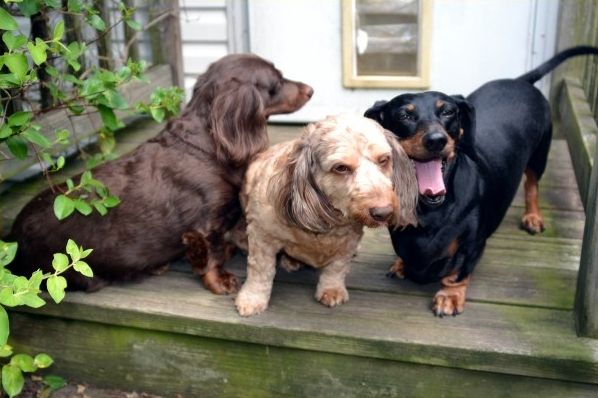 Link, Frank and Jimmy Dean. Created with fd's Flickr Toys